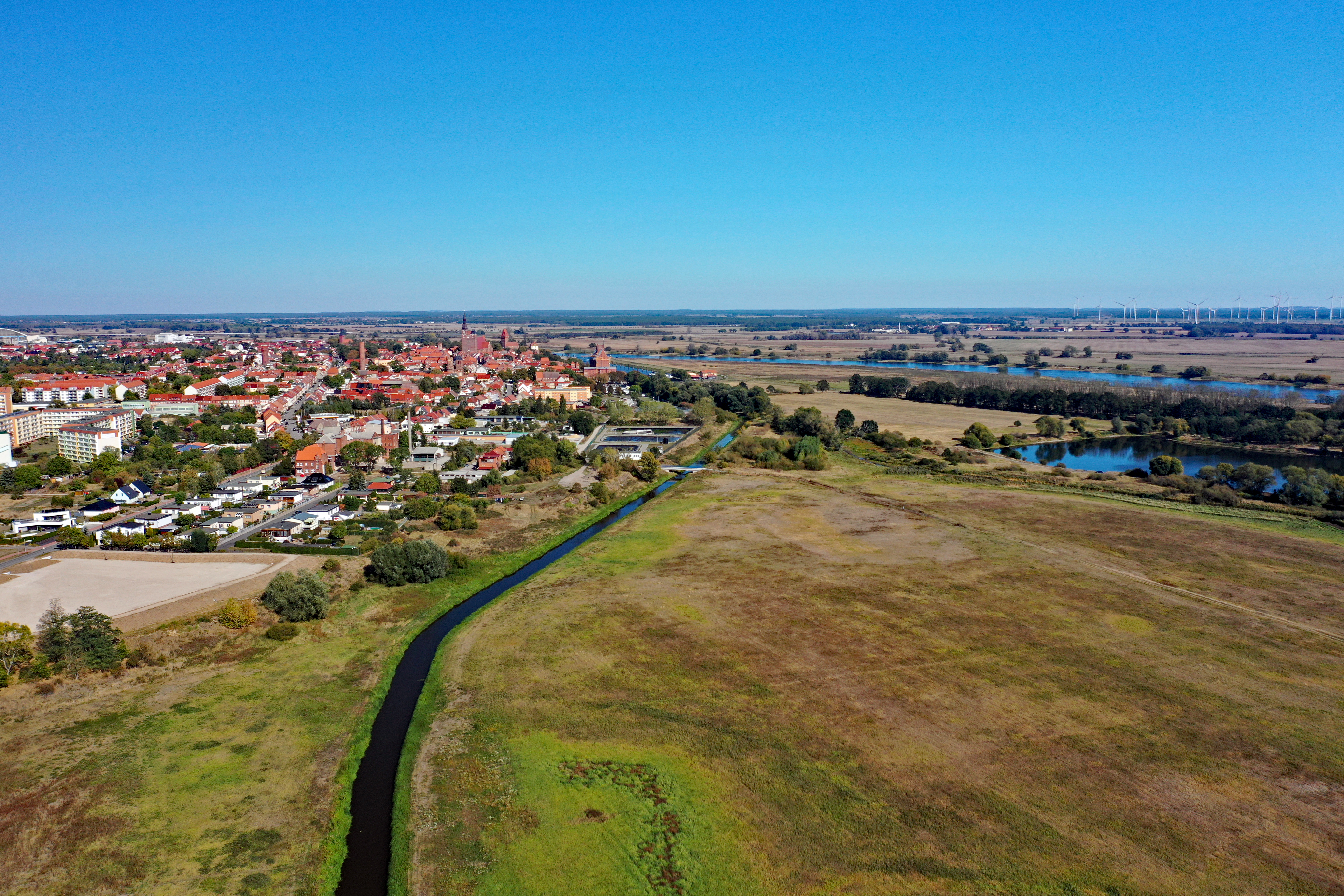 Tangermünde (Saxony-Anhalt, Germany)